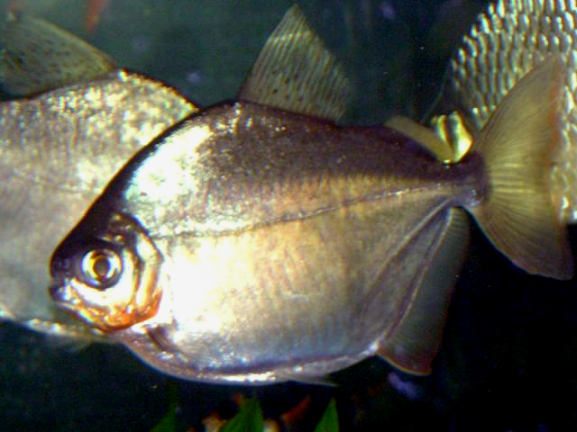 A photograph of the Silver Dollar (Metynnis argenteus).